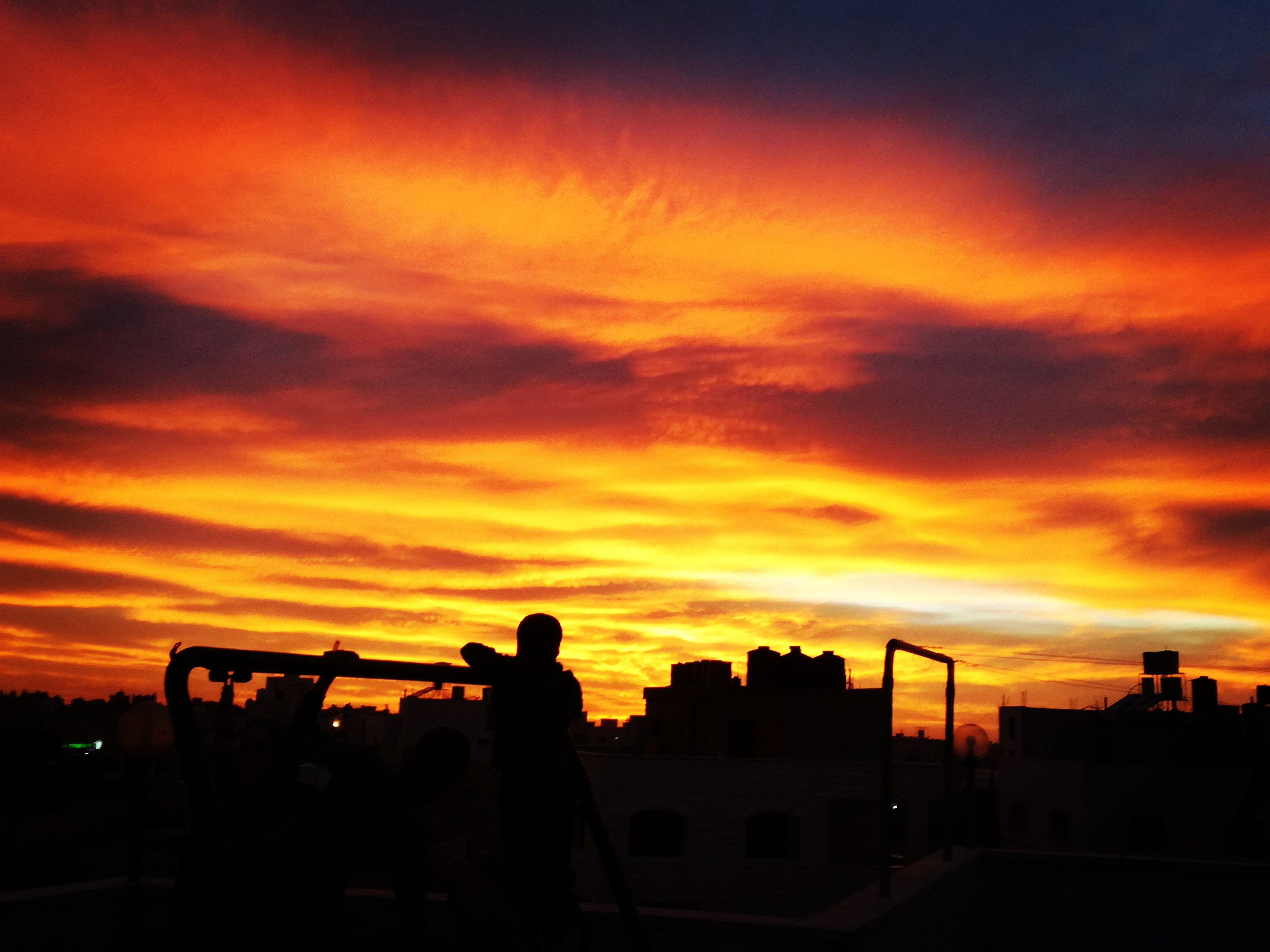 Clouds at sunset in Hebron - Halhul